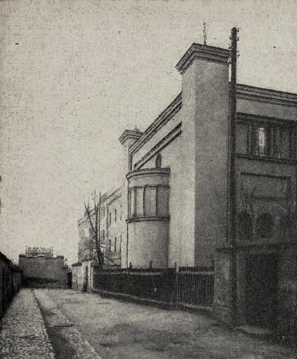 Synagogue in Głogówek